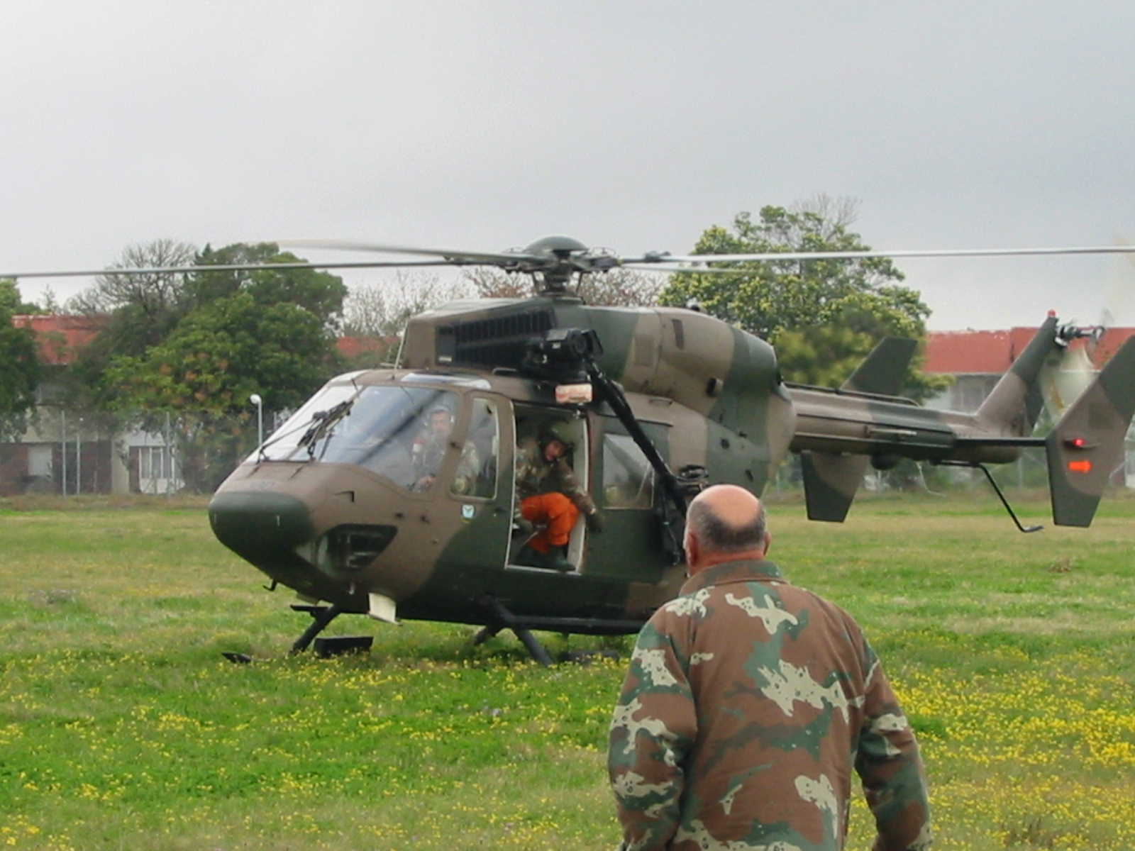 Just about to leave for the annual SANDF (South African National defense Force) game census This is an image of "African people at work" from South Africa